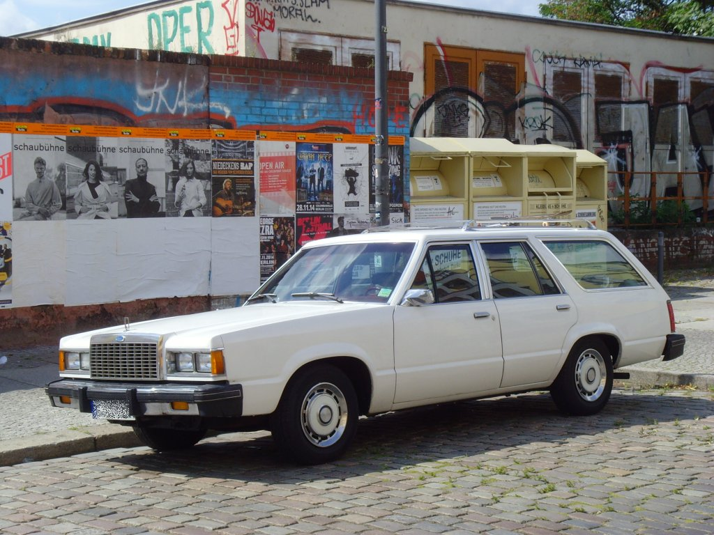 1982 Ford Granada station wagon